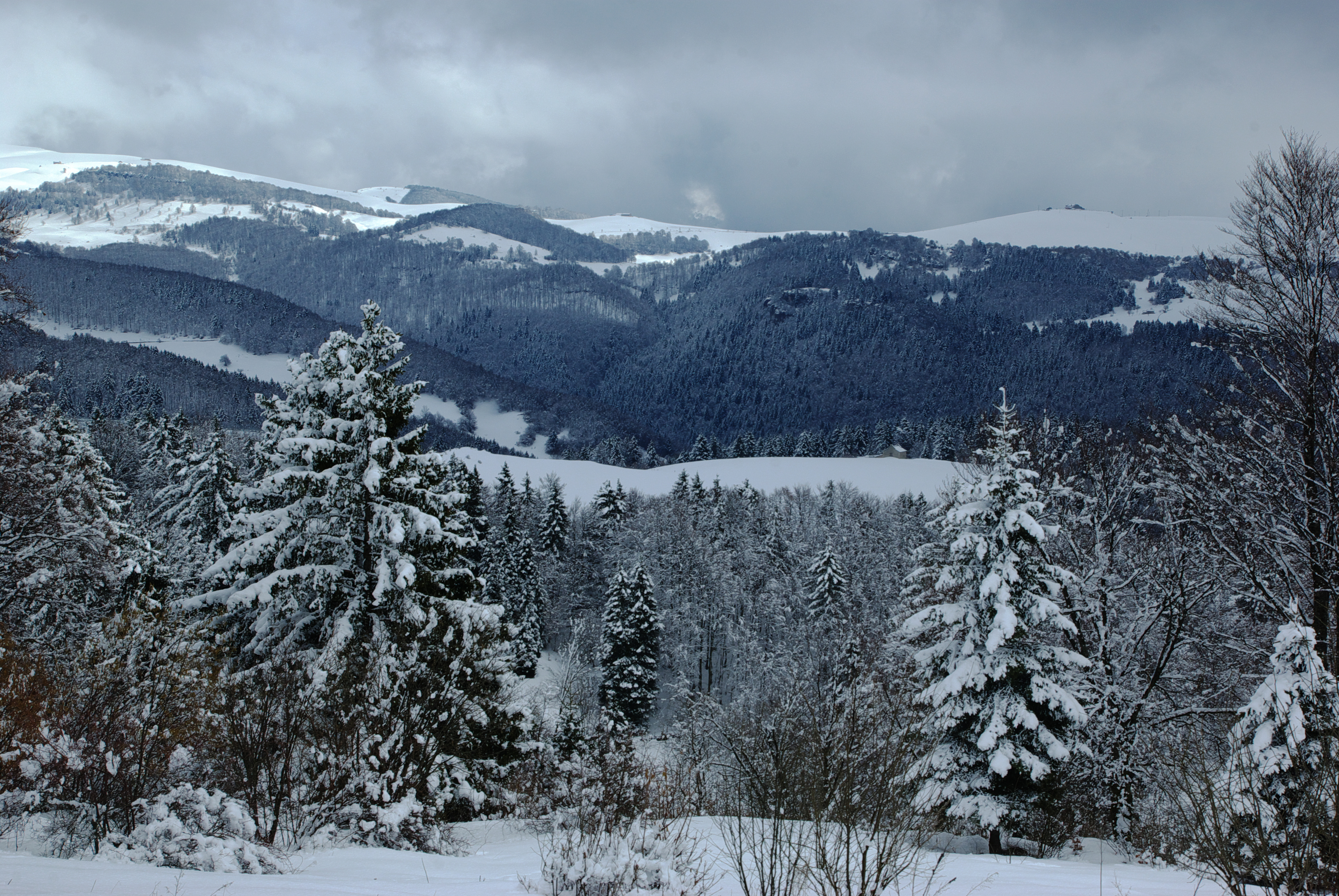 Bosco Chiesanuova (Grietz Dossetti Tinazzo) Lessinia VR Italy 2013-04-01 photo CTG ACA LESSINIA Paolo Villa